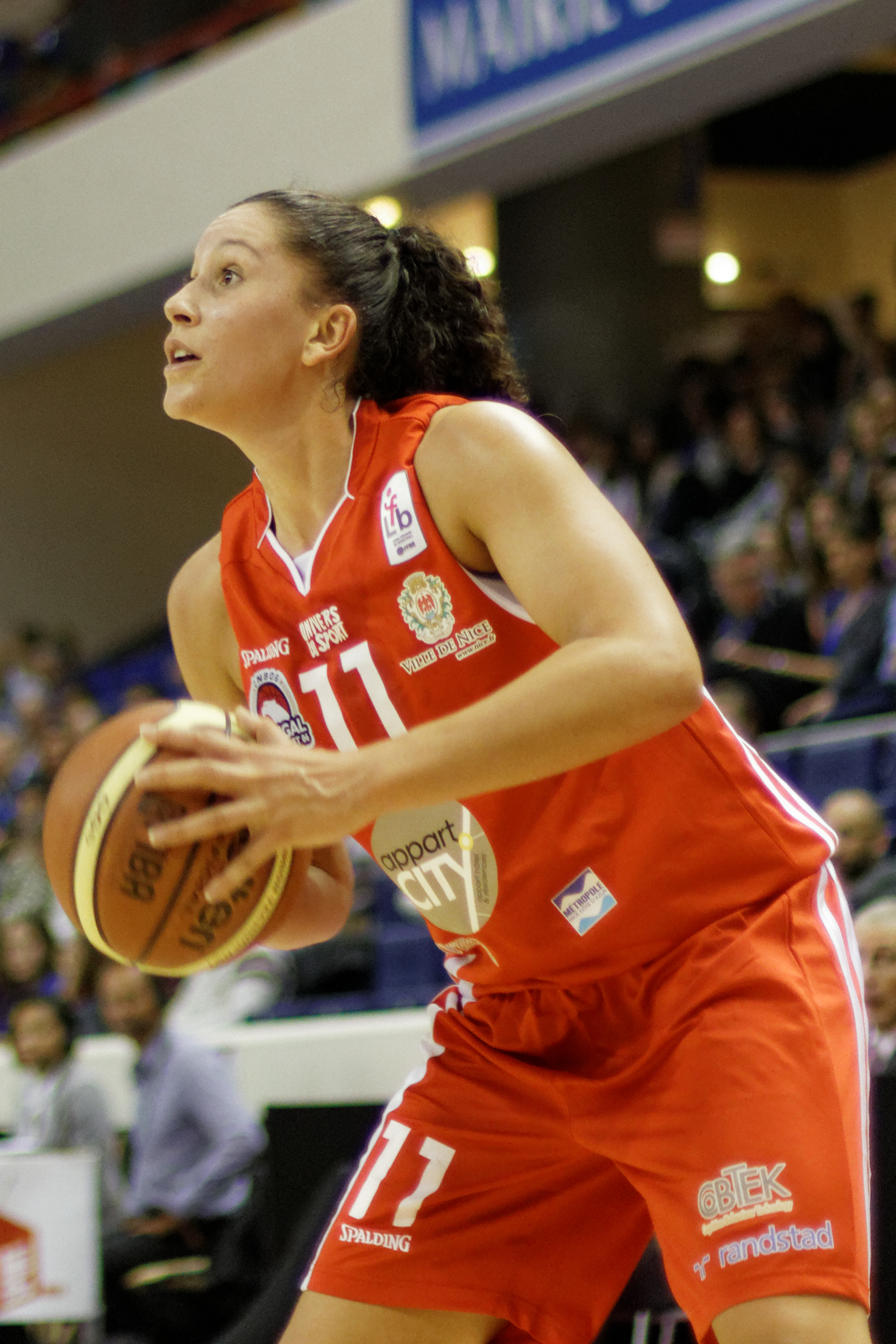 Open LFB, Lattes Montpellier-Nice, October 6th, 2013.